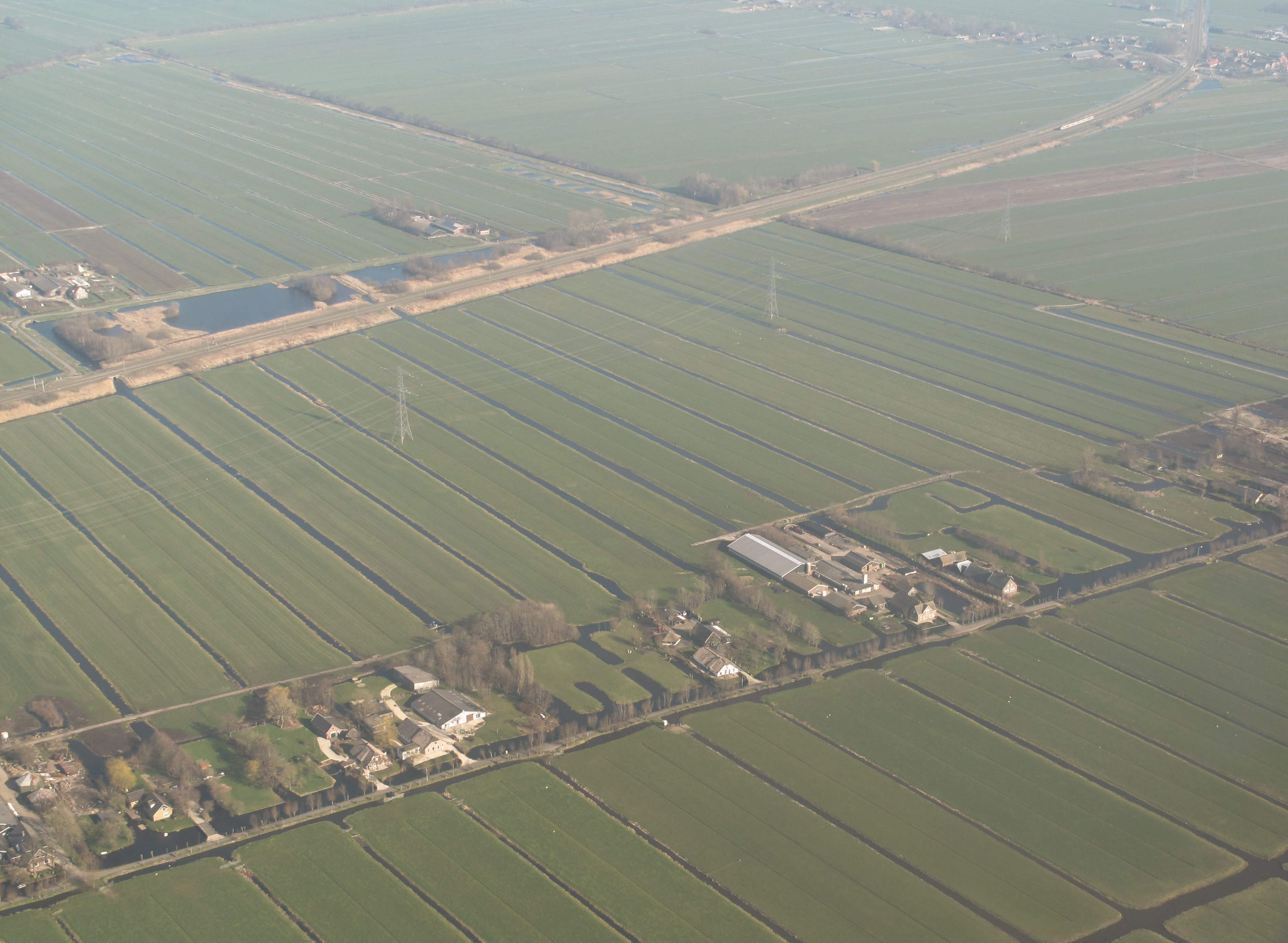 between Oudewater and Reeuwijkse Plassen, view from the sky